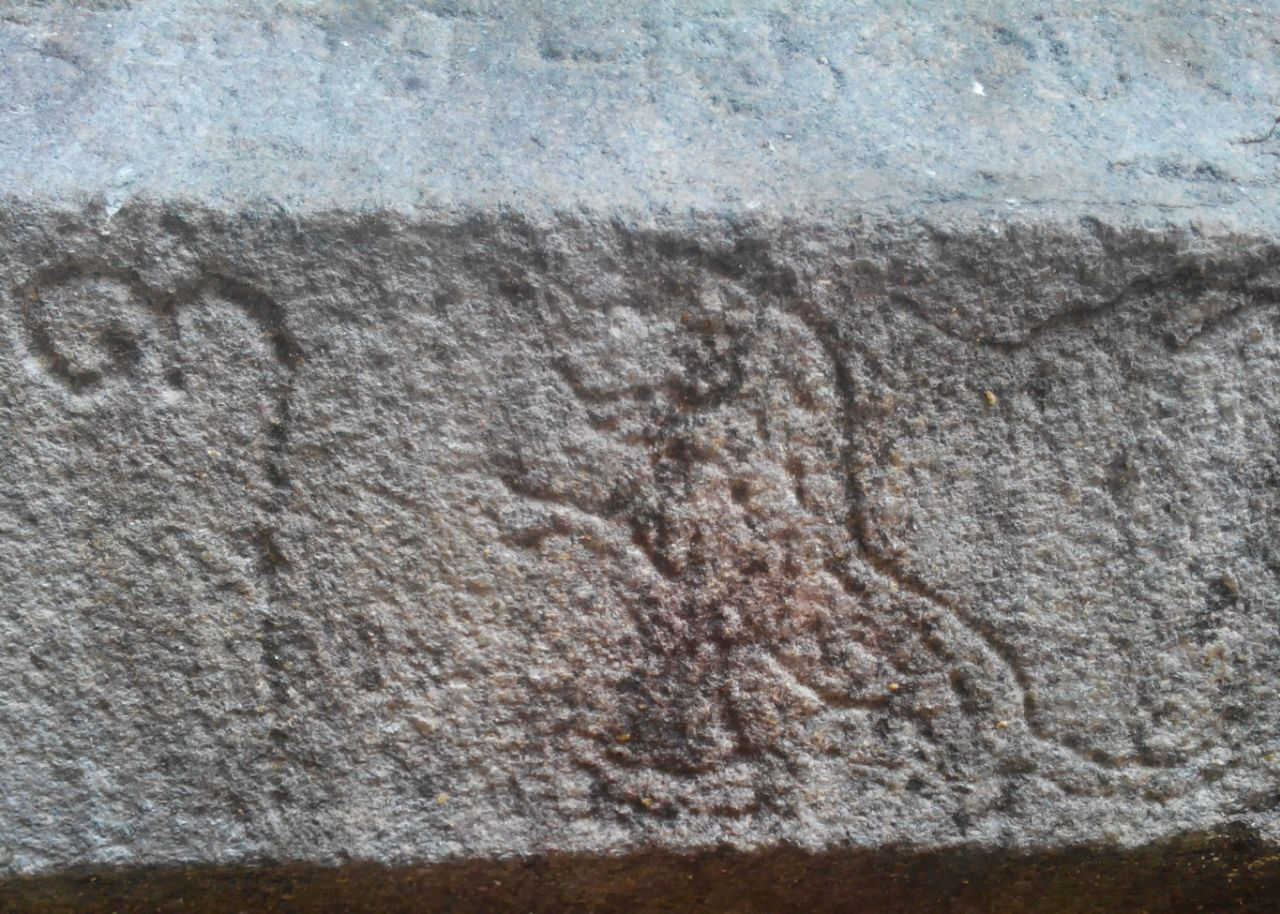 பெண்ணேஸ்வர் கோயில் பொறிக்கப்பட்டுள்ள சோழரின் புலிச் சின்னம்